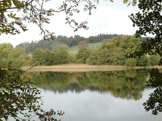 View across Loch Arthur An internet source says: "Although locals claim that King Arthur's sword rests on the bottom of Loch Arthur, there are no stories, only the name to make any connection with King Arthur."